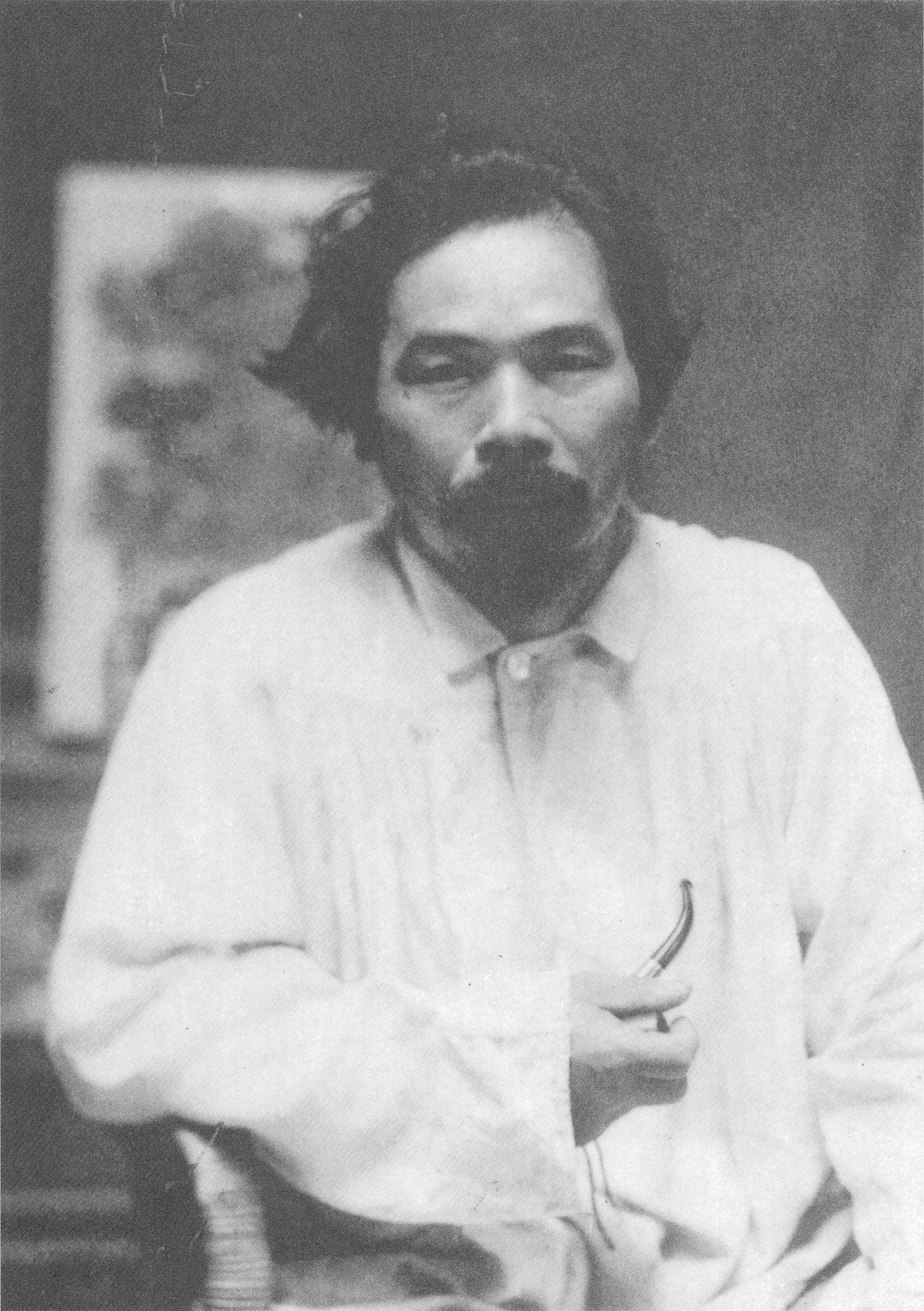 Photo of Aoyama Kumaji